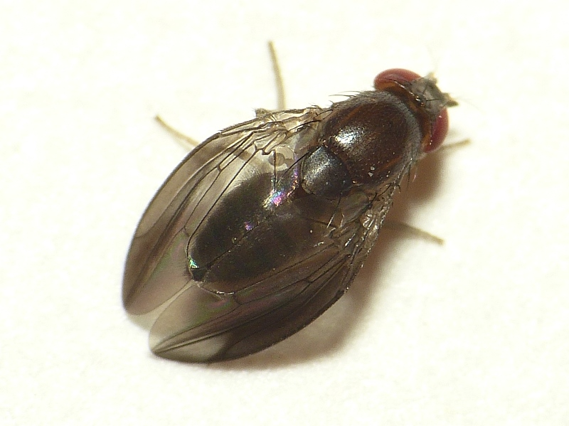 Stegana nigrithorax male, location: The Netherlands - Rhenen - Blauwe Kamer